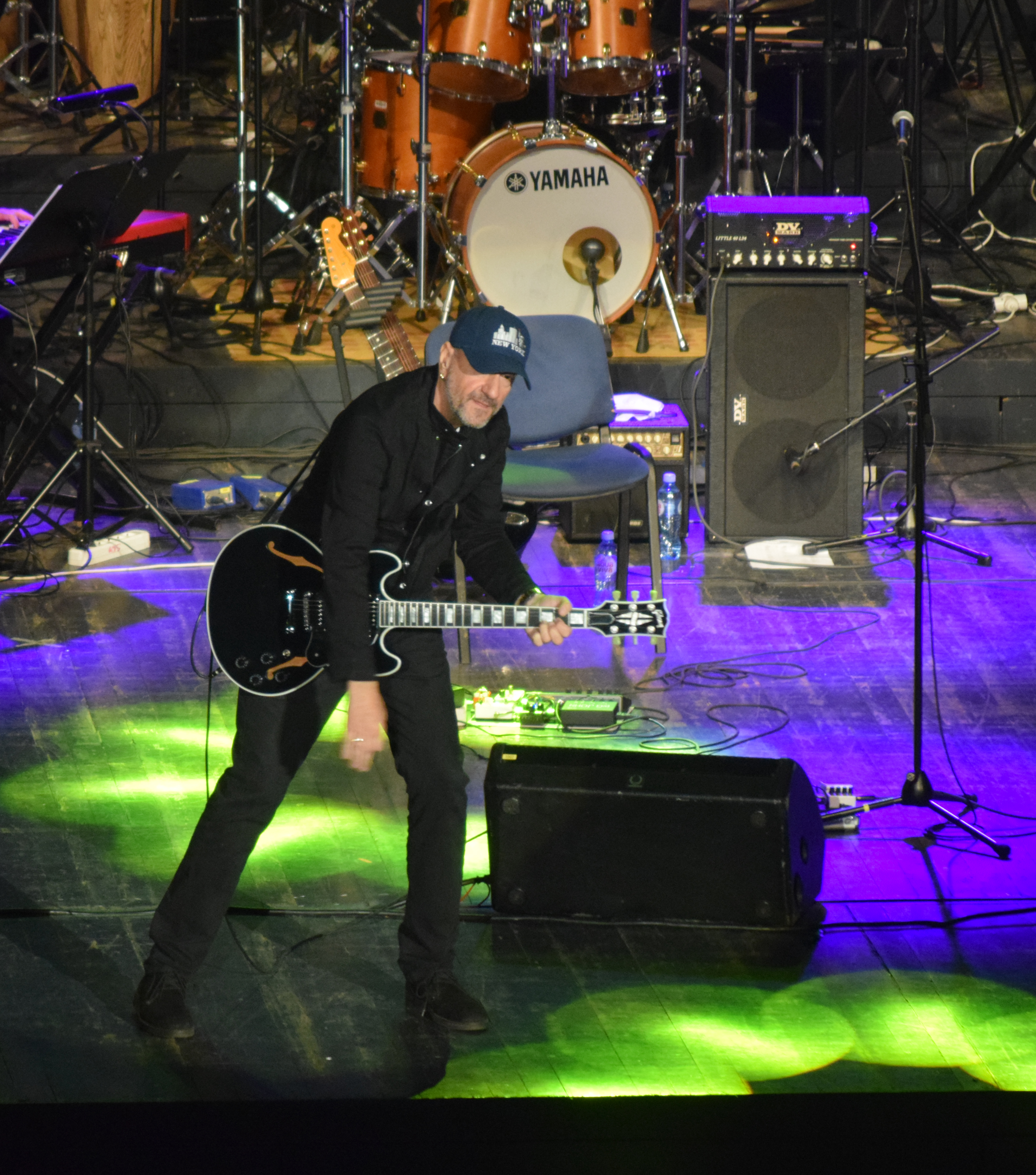 Vlatko Stefanovski with the Big Band Orchestra of the Slovenian Army on April 21, 2017 in the Sava Center in Belgrade (Serbia)